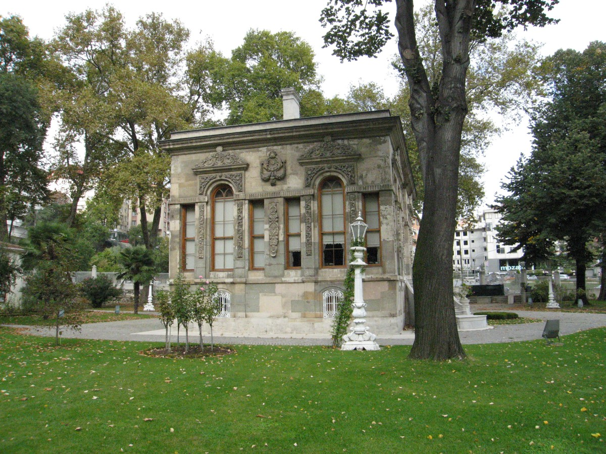 Left façade of the Court Pavilion of Ihlamur Palace in Istanbul, Turkey